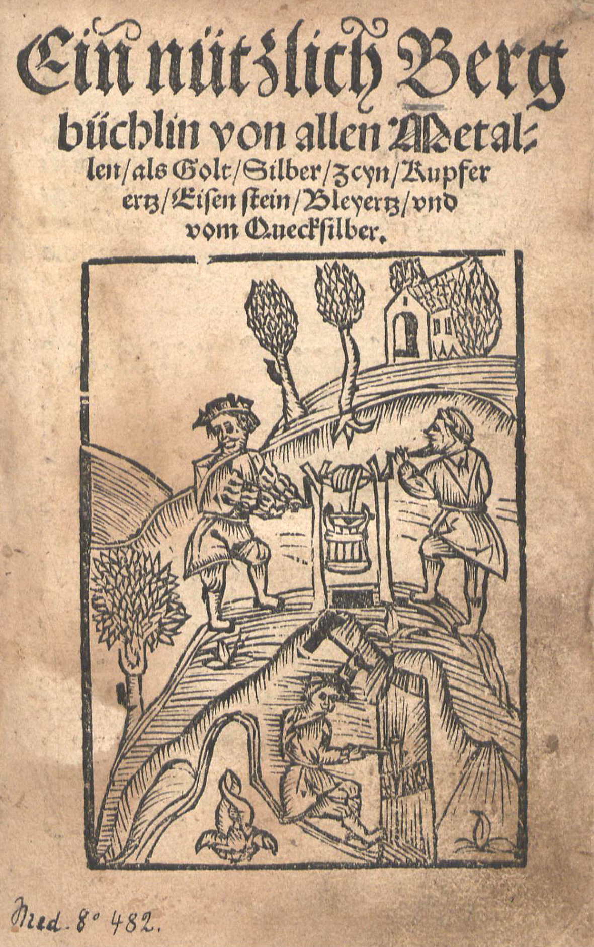 Title page of the path-breaking work of the German economic geology pioneer Ulrich Rülein von Calw, titled Ein nützlich Bergbüchlin von allen Metallen als Golt, Silber, Zcyn, Kupferertz, Eisenstein, Bleyertz und vom Quecksilber [An useful mining booklet of all metals as there are gold, silver, tin, copper ore, iron stone, lead ore and mercury].